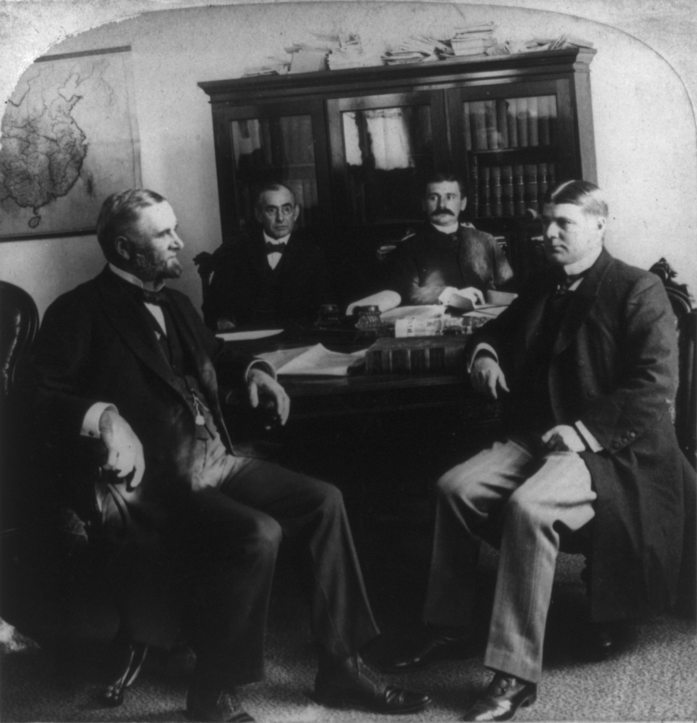 U.S. Minister Edwin Hurd Conger and staff, heroes of the awful siege - in the American Legation, Peking, China. Caption card tracings: Boxer Rebellion, 1900; Foreign relations—Ch. Am.; China—P-; Photog. I.; BI; Shelf.